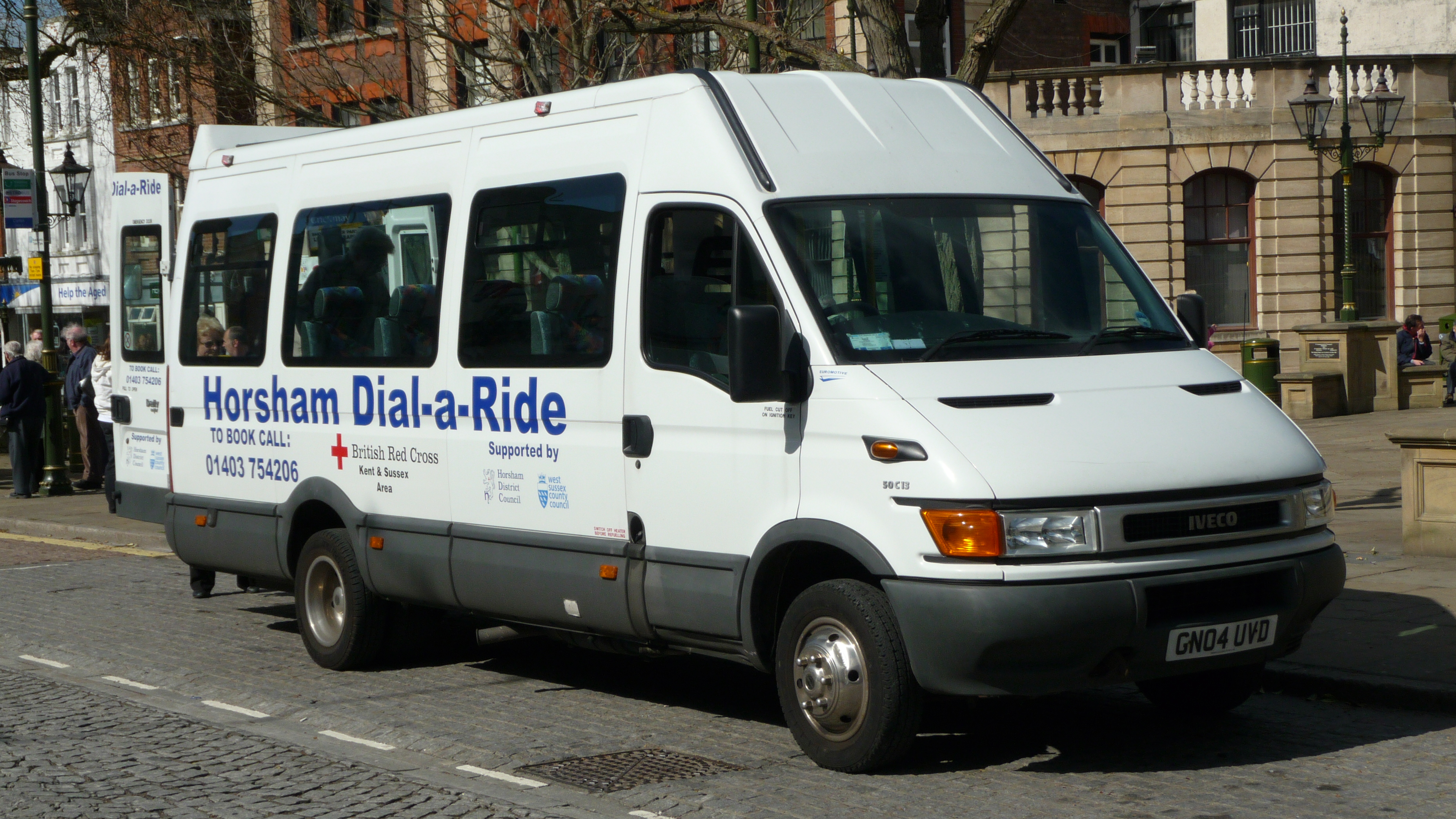 Horsham Dial-a-Ride GN04 UVD, an Iveco Daily Mk3 van, in Carfax, Horsham, on the Dial-a-Ride service.